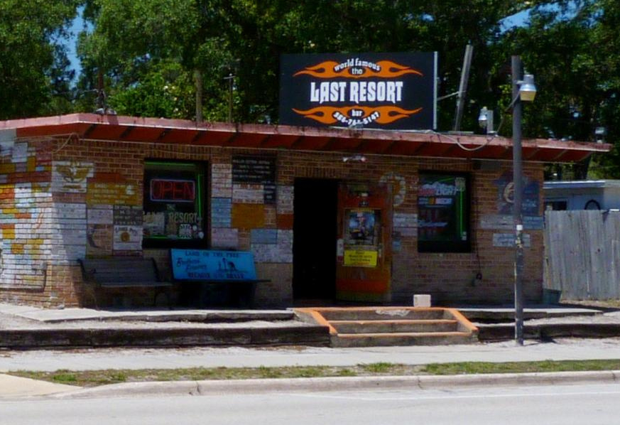 world famous